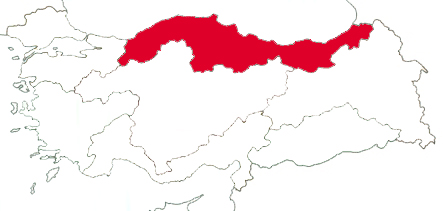 Map of Turkey with highlighted Black Sea Region (Karadeniz Bölgesi)